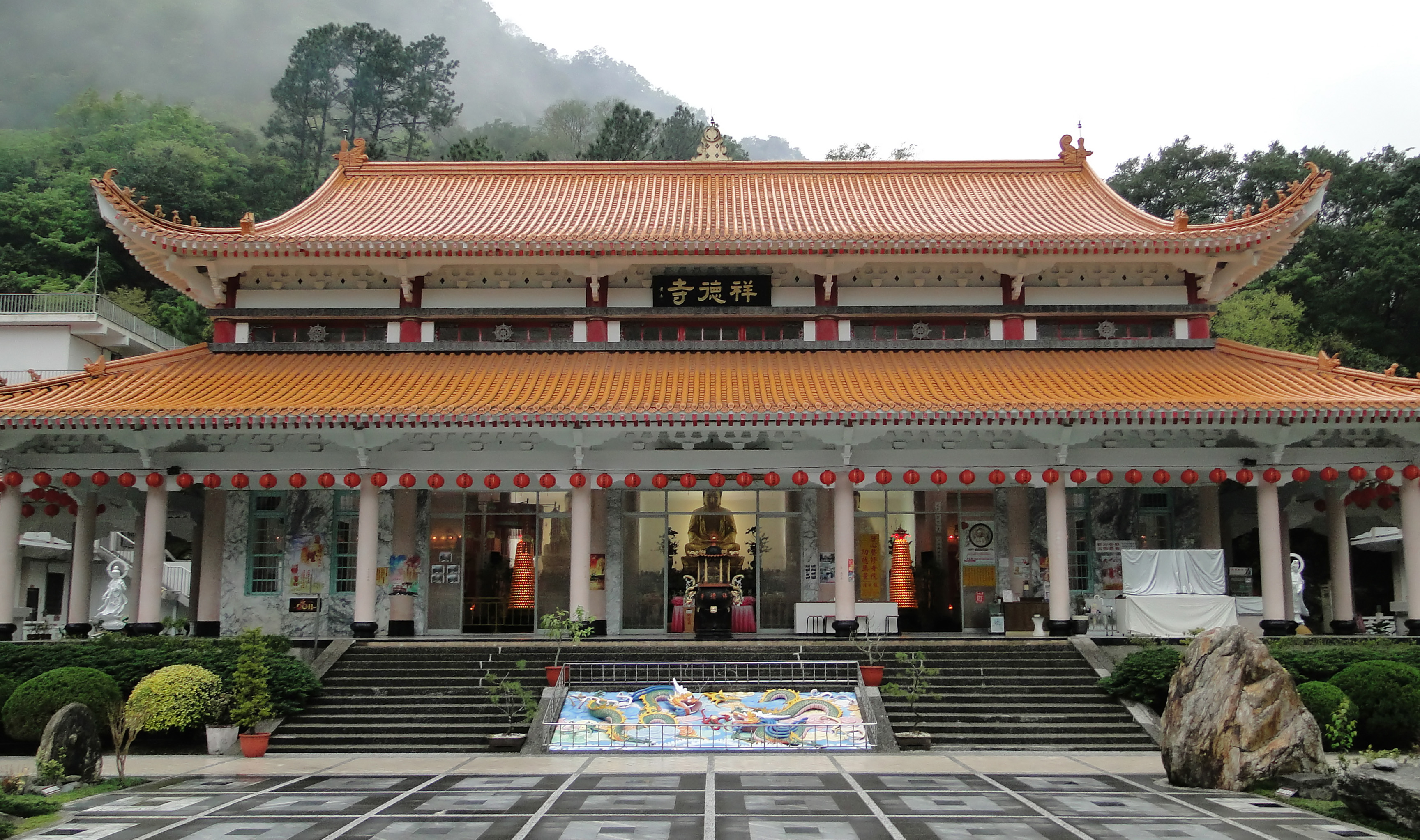 Main shrine of Hsiang-Te Temple, Tiansiang, Taiwan